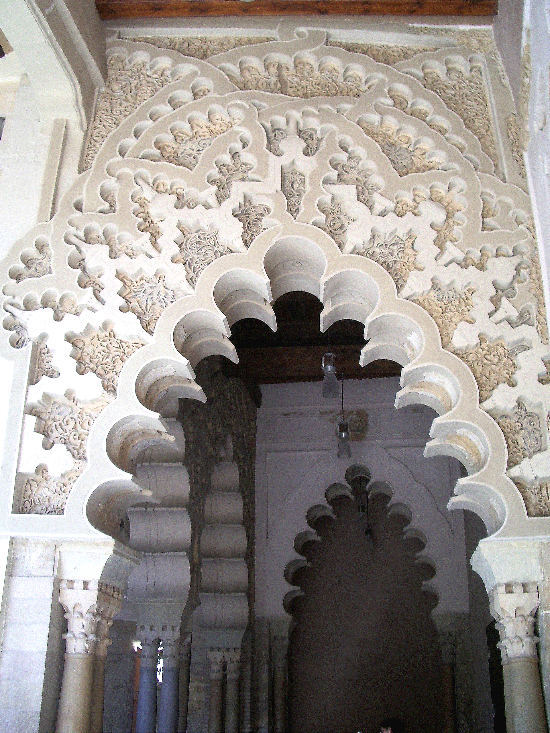 Arches in Aljaferia of Zaragoza.